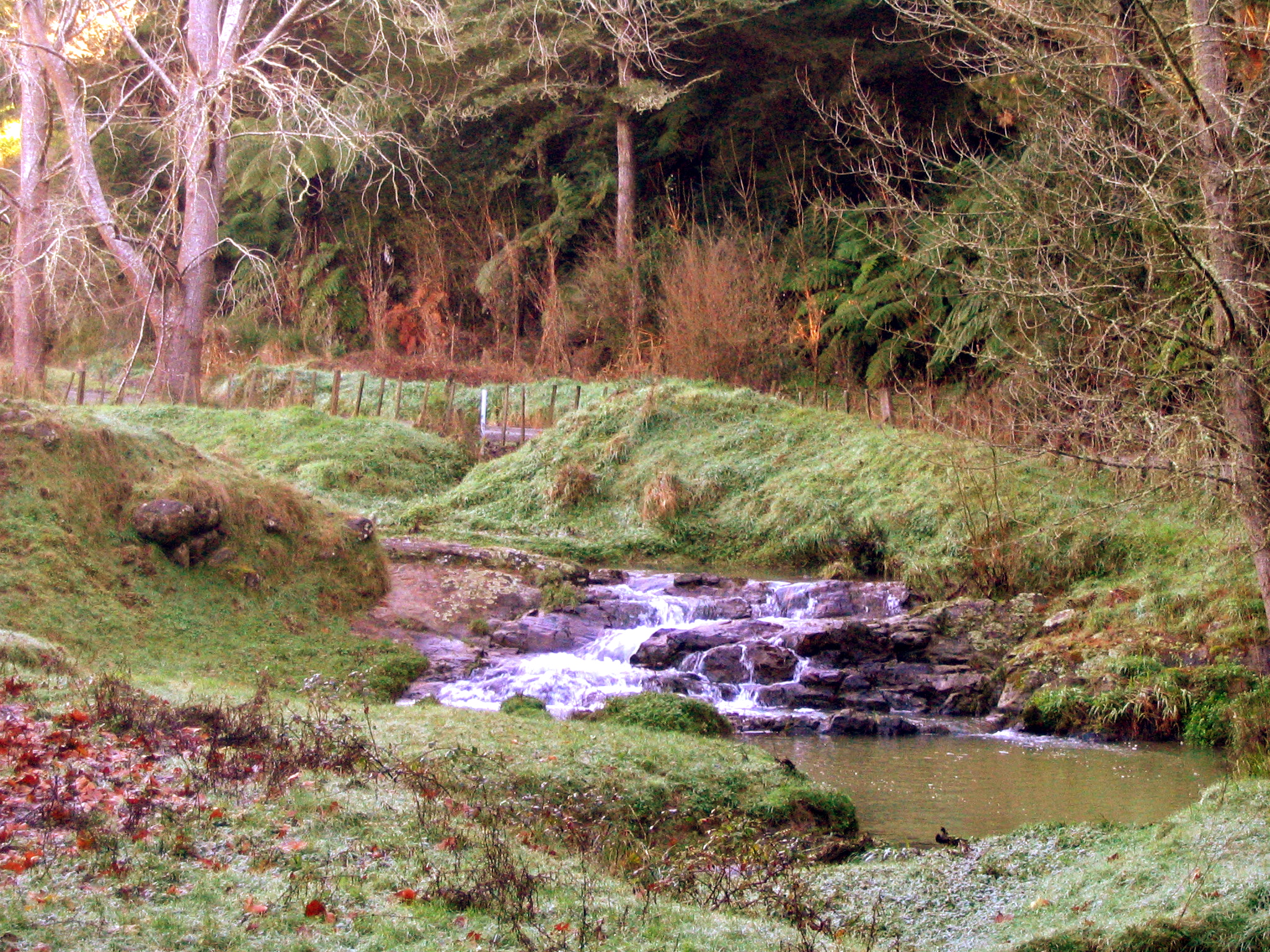 A polluted unfenced river in the Waikato Region.